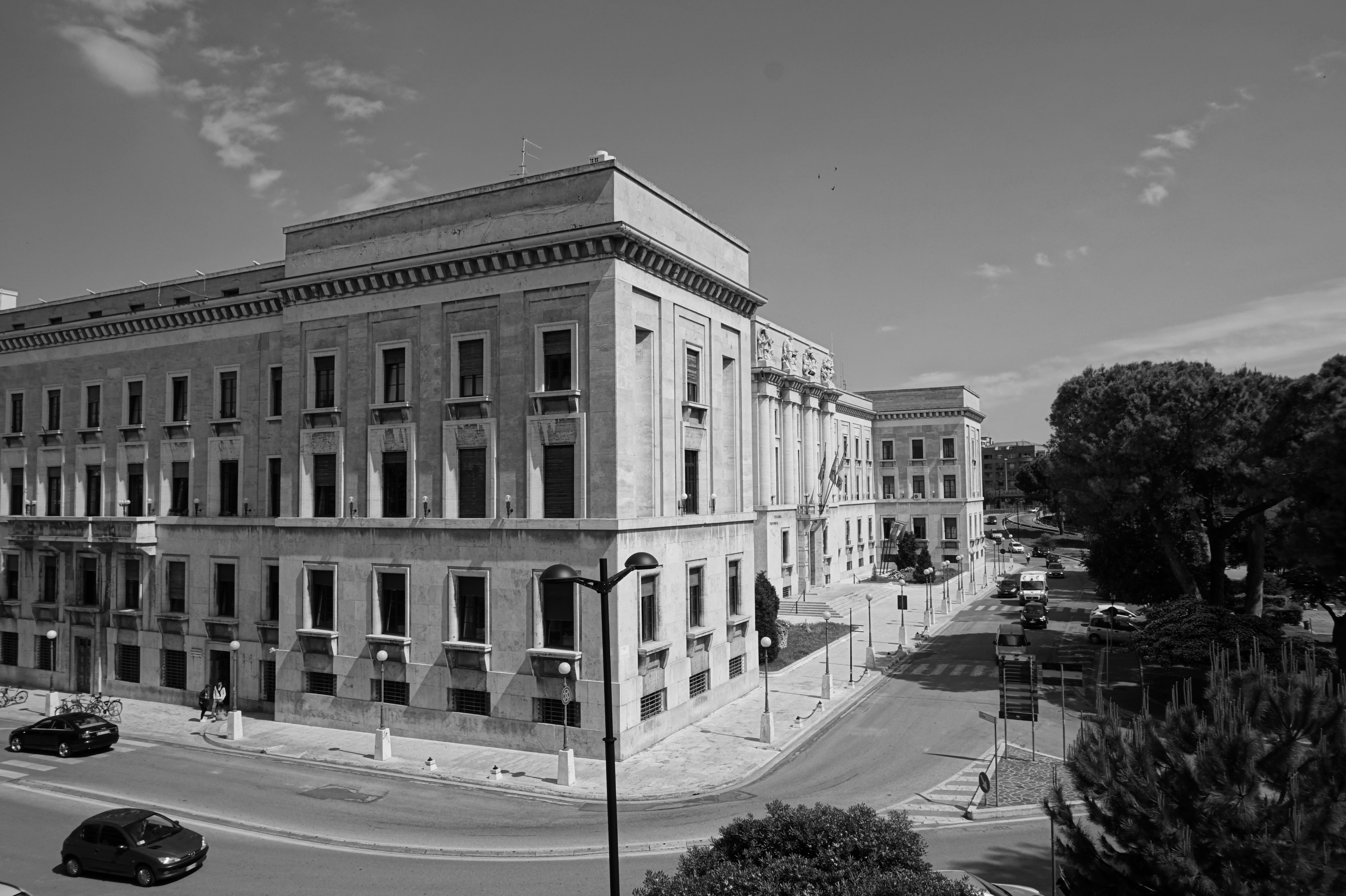 Historical building - 1920 ca.